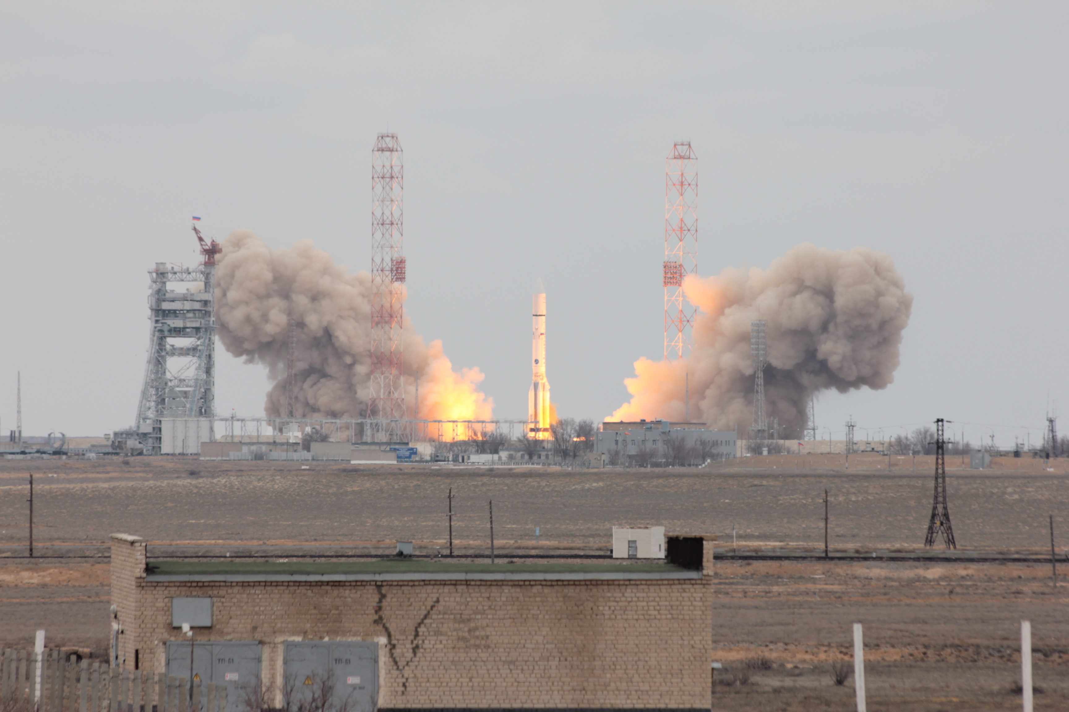 Launch of ExoMars 2016 on 14 March 2016 aboard a Proton-M rocket from the Baikonur Cosmodrome.